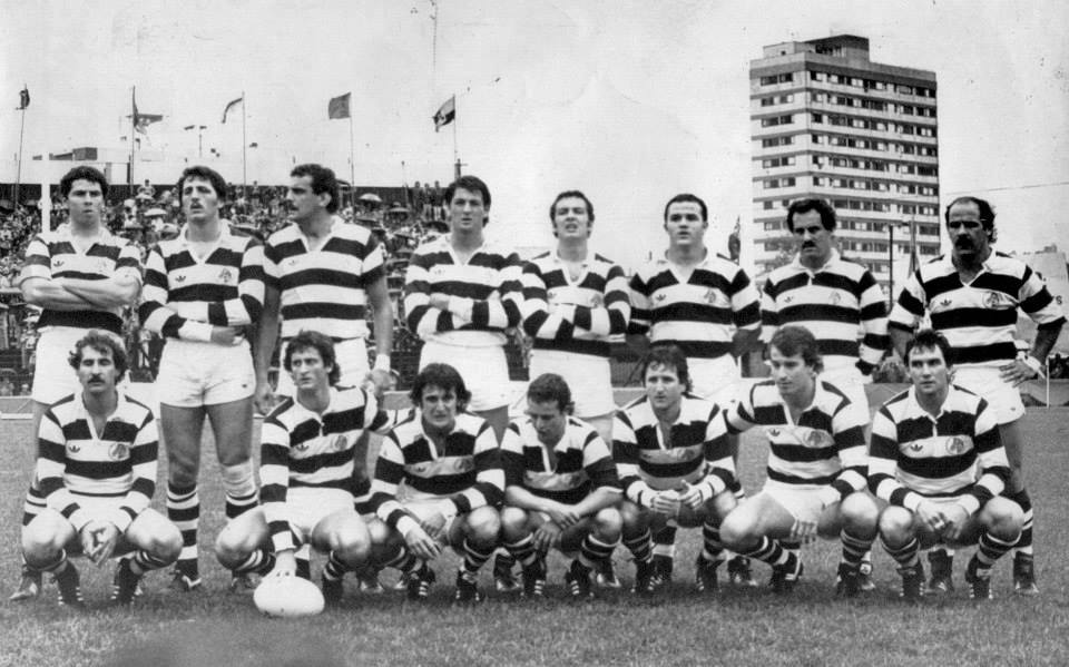 The C.A. San Isidro team that played All Blacks in Buenos Aires. (up): Gabriel Travaglini. Roberto Cobelo, Eliseo Chapa Branca, Jorge Allen, Gustavo Posleman, Daniel Sanés, Andrés Courreges, Fernando Morel. (down): Guillermo Varone, Marcelo López Imizcoz, Javier Ochoa, Andrés Nicholson, Fernando Pedezert, Florencio Varela, Benito Prisciantelli.